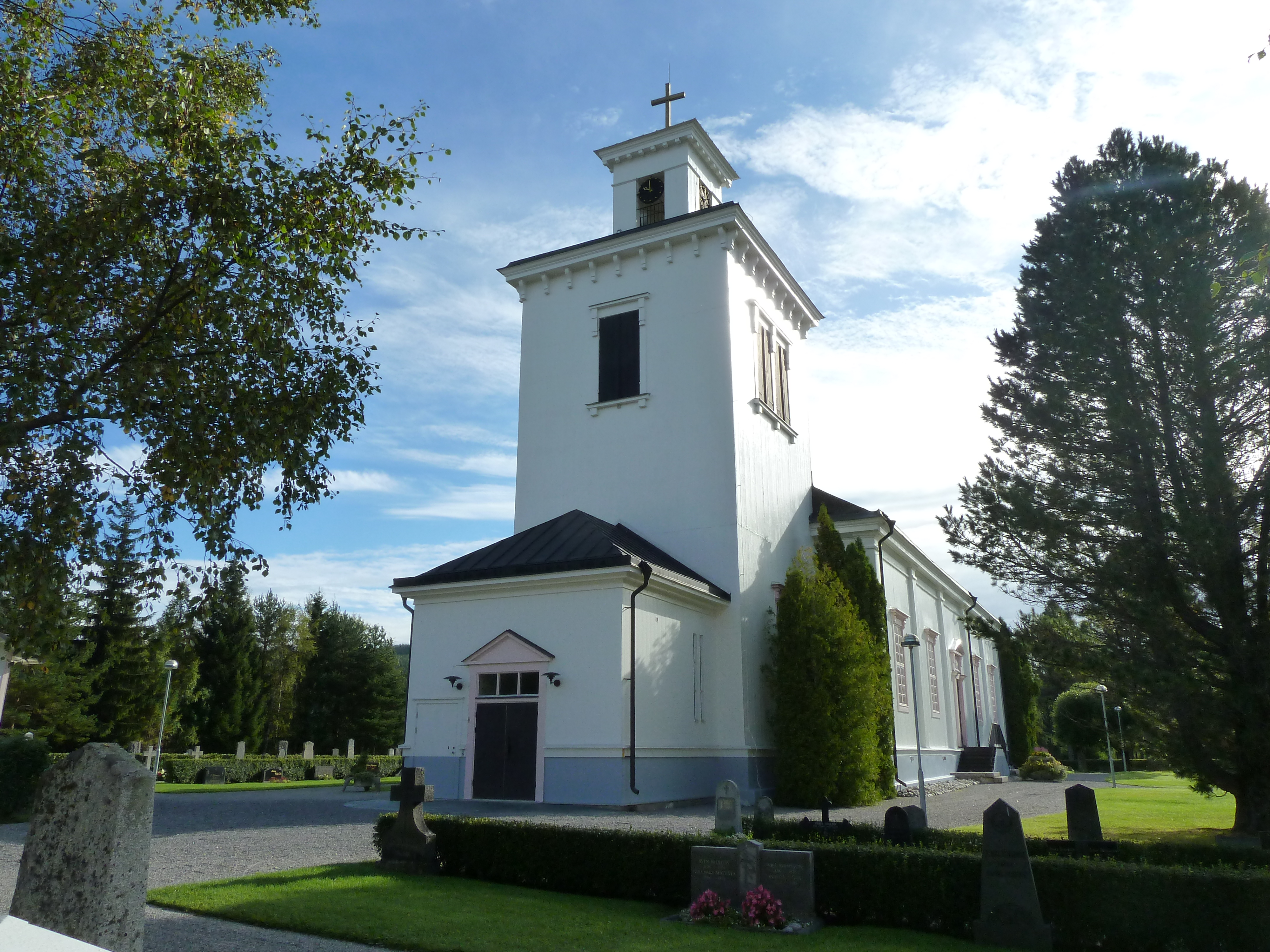 Moliden church in Moliden, Örnsköldsvik, Sweden